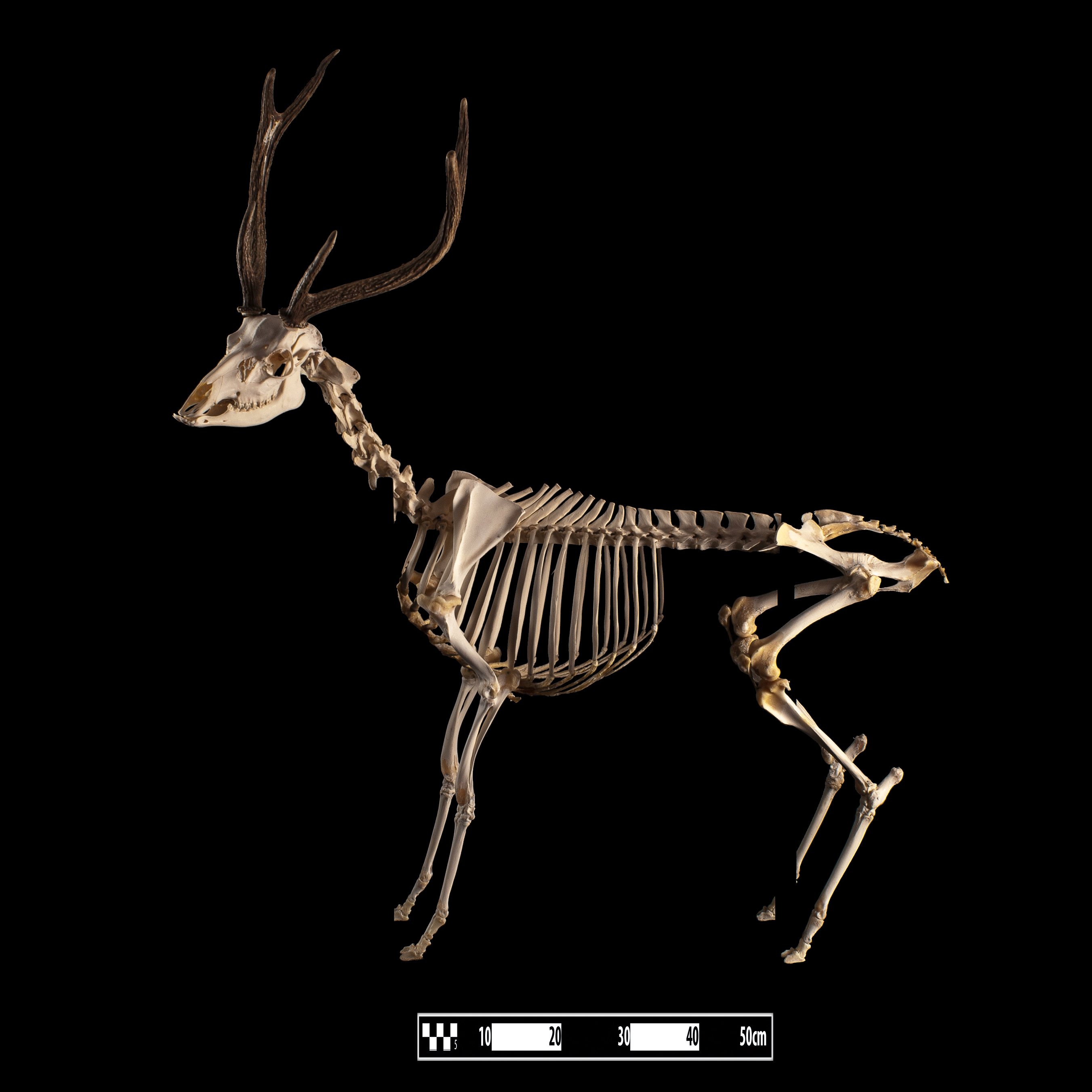 Specimen of Sambar deer skeleton prepared by the bone maceration technique and on display at the Museum of Veterinary Anatomy, FMVZ USP.